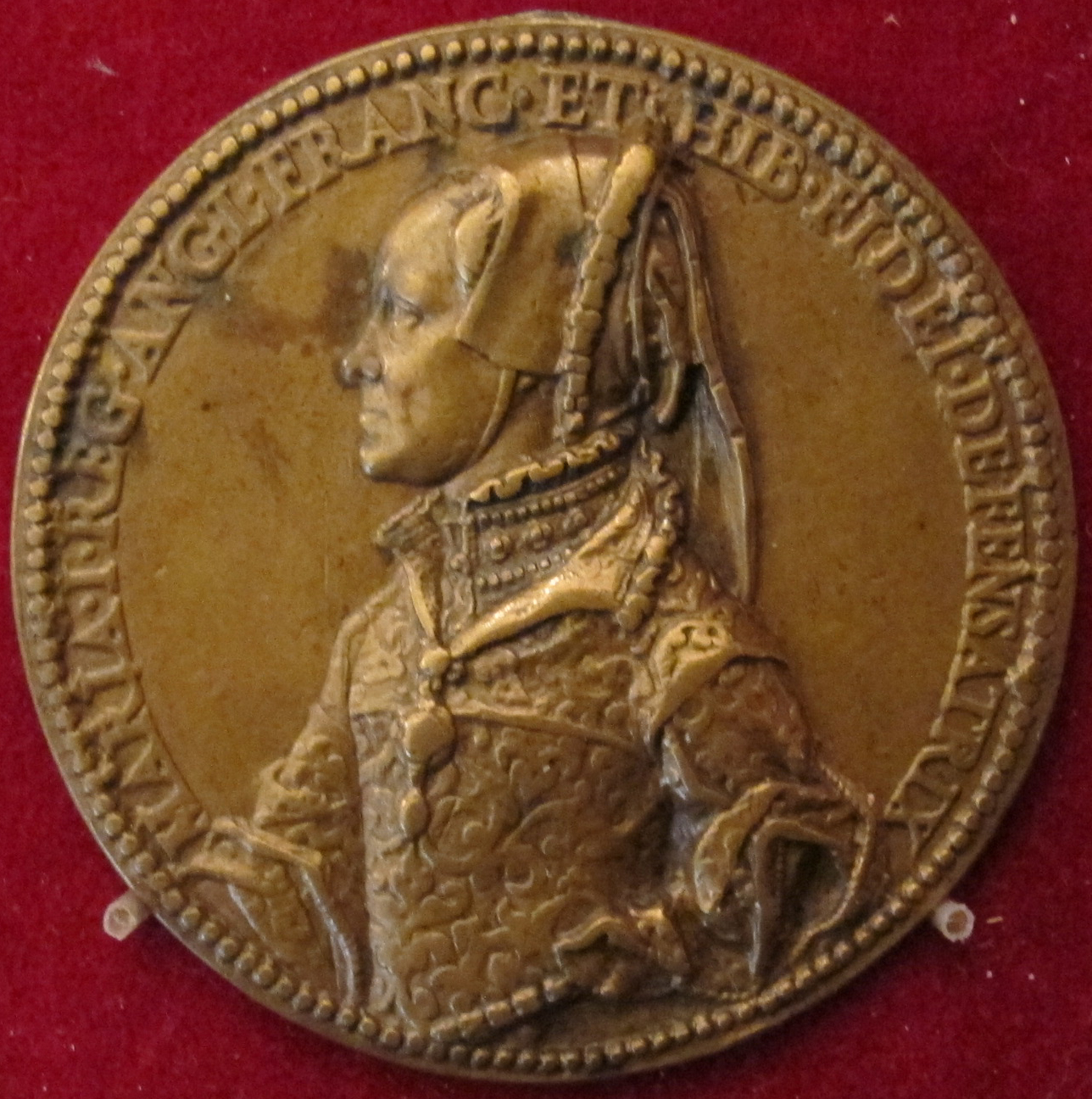 Bronze medal of Mary I of England (1516-1558) by Jacopo da Trezzo (d.1589) in the Wallace Collection, London